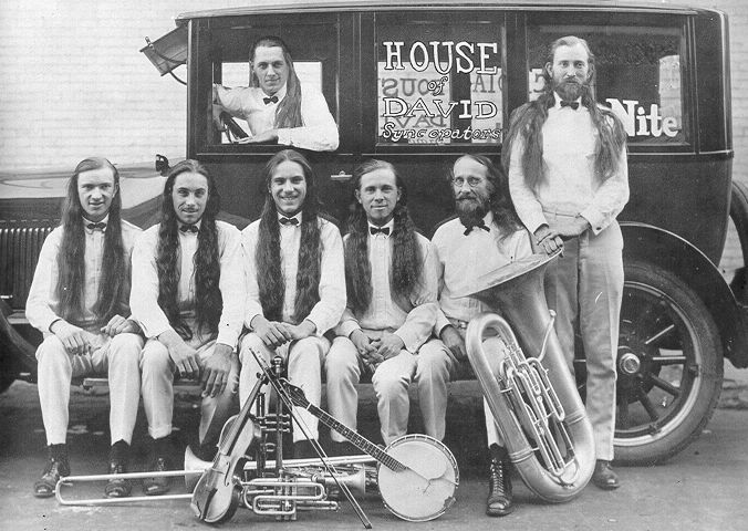 House of David Band in 1915.